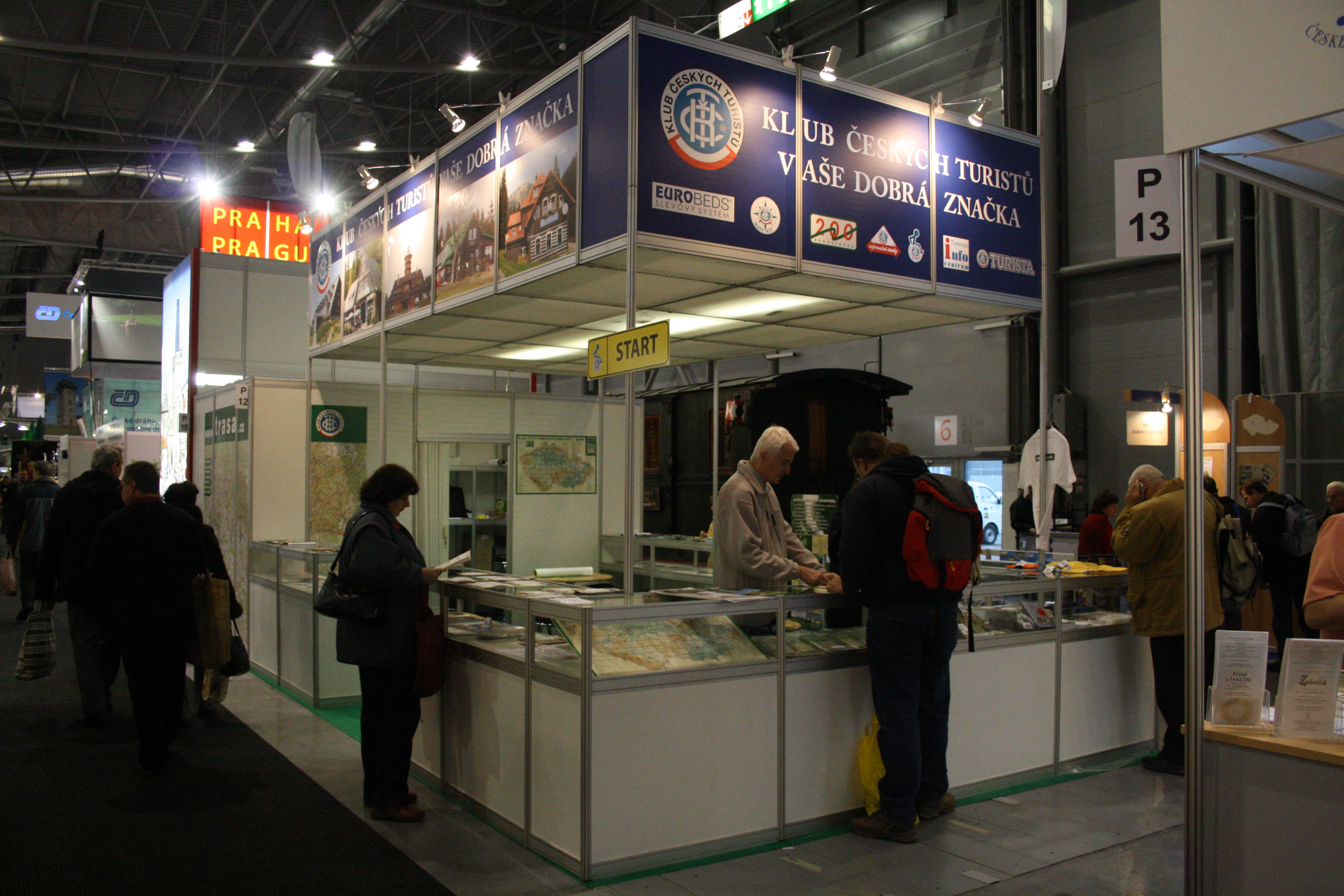 Presentation of various touristic destinations of Czech Republic.